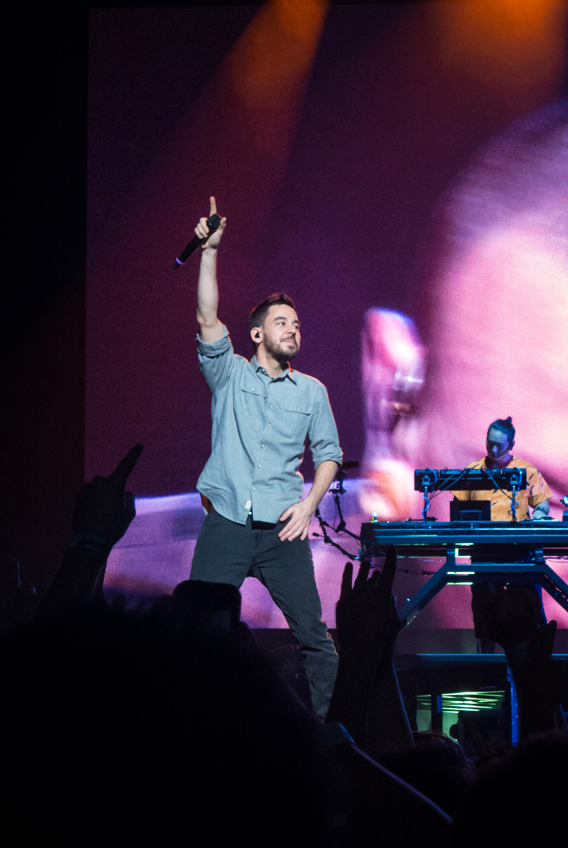 Mike Shinoda performing with Linkin Park at Soundwave 2013 - Rod Laver Arena, Melbourne.